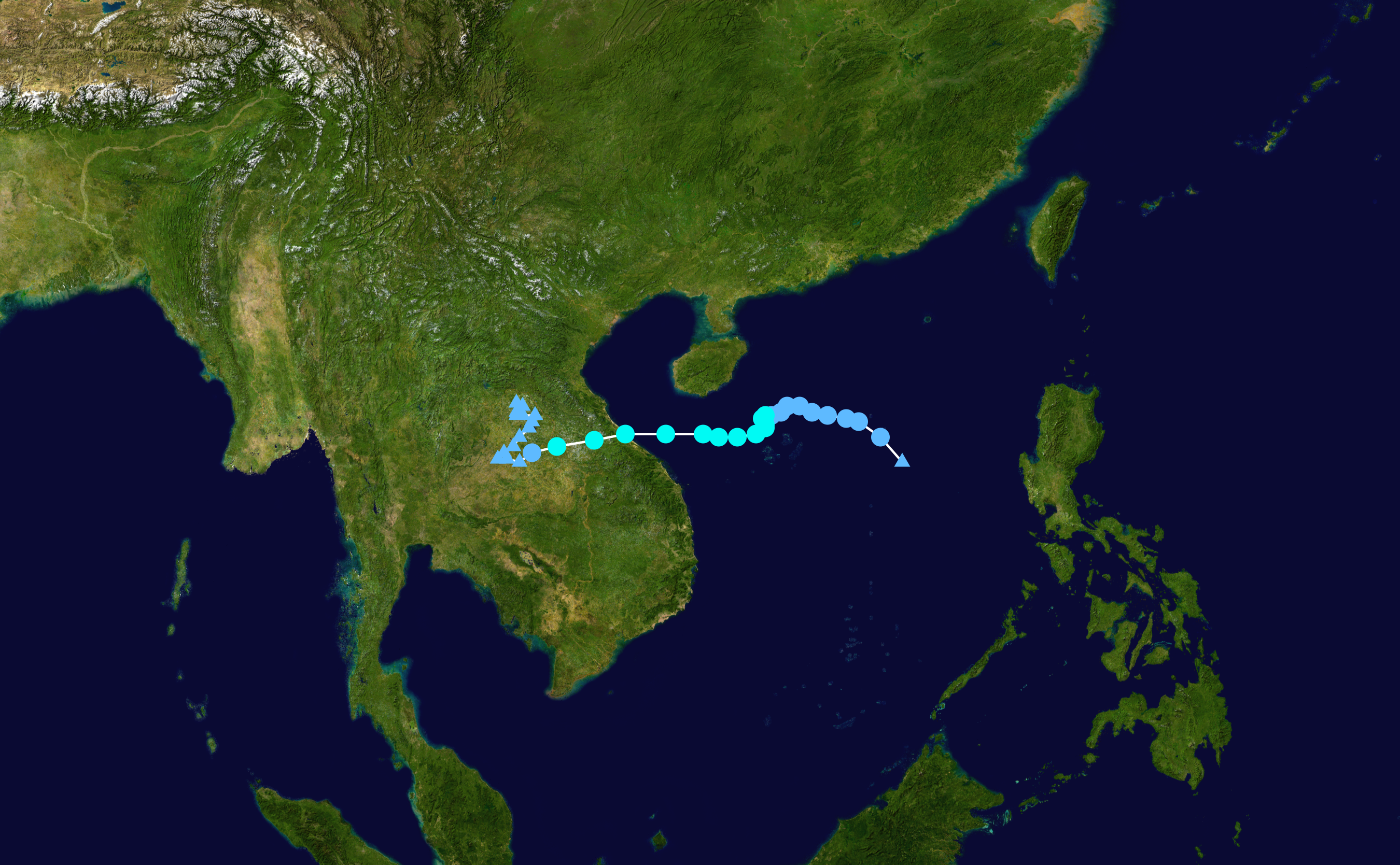 Track map of Tropical Storm Sonca of the 2017 Pacific typhoon season. The points show the location of the storm at 6-hour intervals. The colour represents the storm's maximum sustained wind speeds as classified in the Saffir–Simpson scale (see below), and the shape of the data points represent the nature of the storm, according to the legend below. Saffir–Simpson scale Tropical depression≤38 mph≤62 km/h Category 3111–129 mph178–208 km/h Tropical storm39–73 mph63–118 km/h Category 4130–156 mph209–251 km/h Category 174–95 mph119–153 km/h Category 5≥157 mph≥252 km/h Category 296–110 mph154–177 km/h Unknown Storm type Tropical cyclone Subtropical cyclone Extratropical cyclone / Remnant low / Tropical disturbance / Monsoon depression